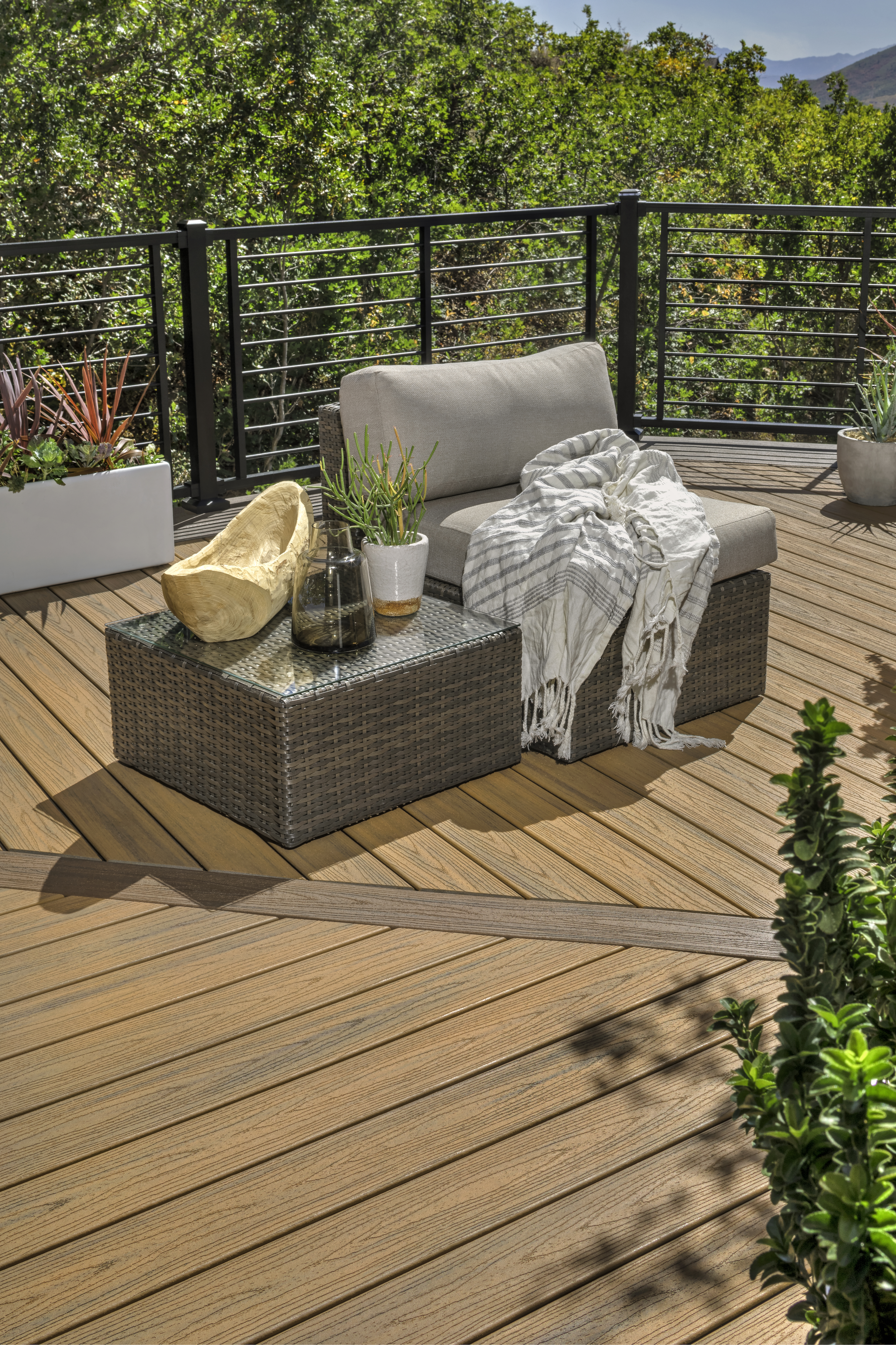 Photo of Trex Decking